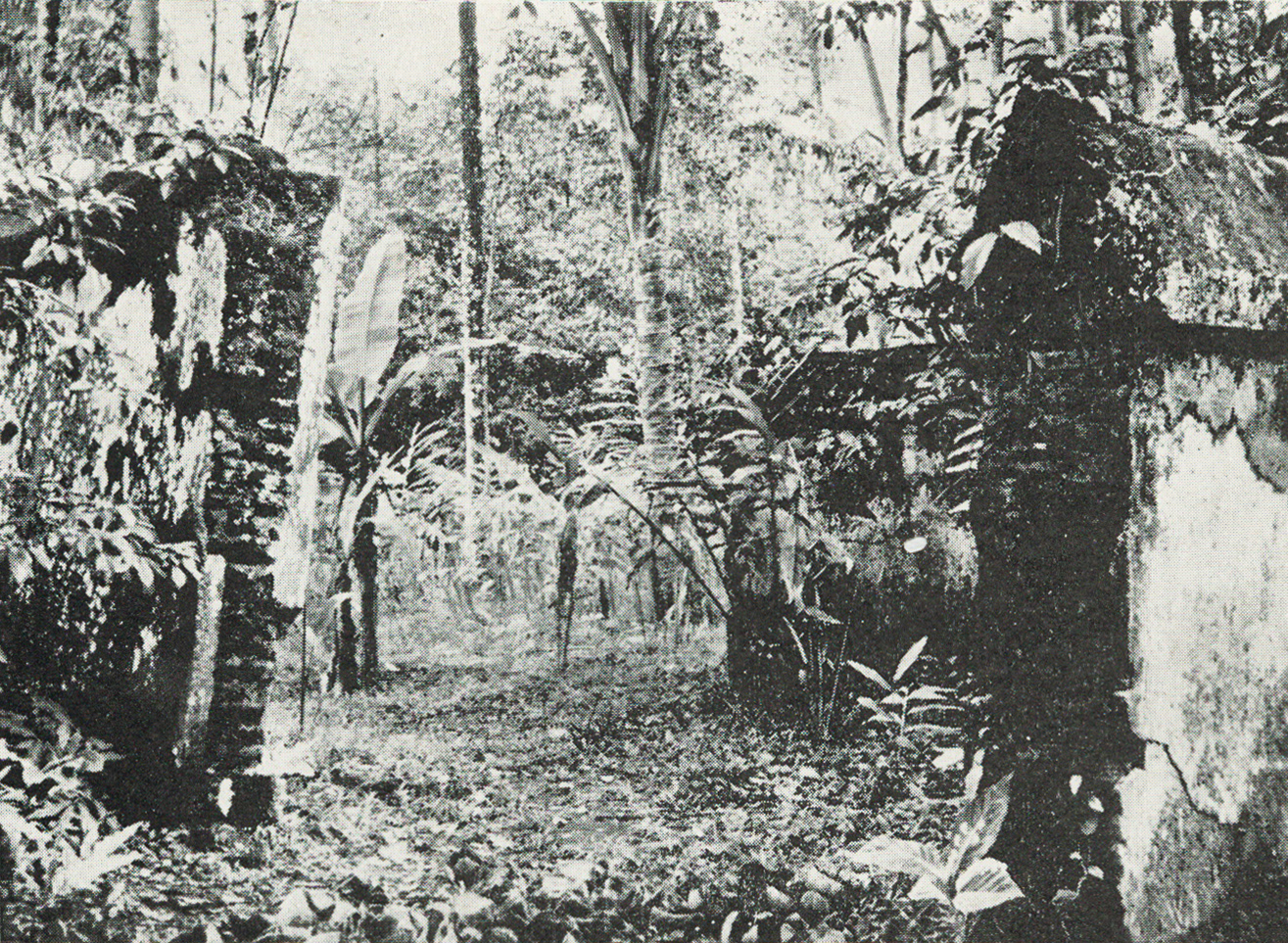 Entrance to Ambarketawang Kraton prison, Kota Jogjakarta 200 Tahun, plate after page 8